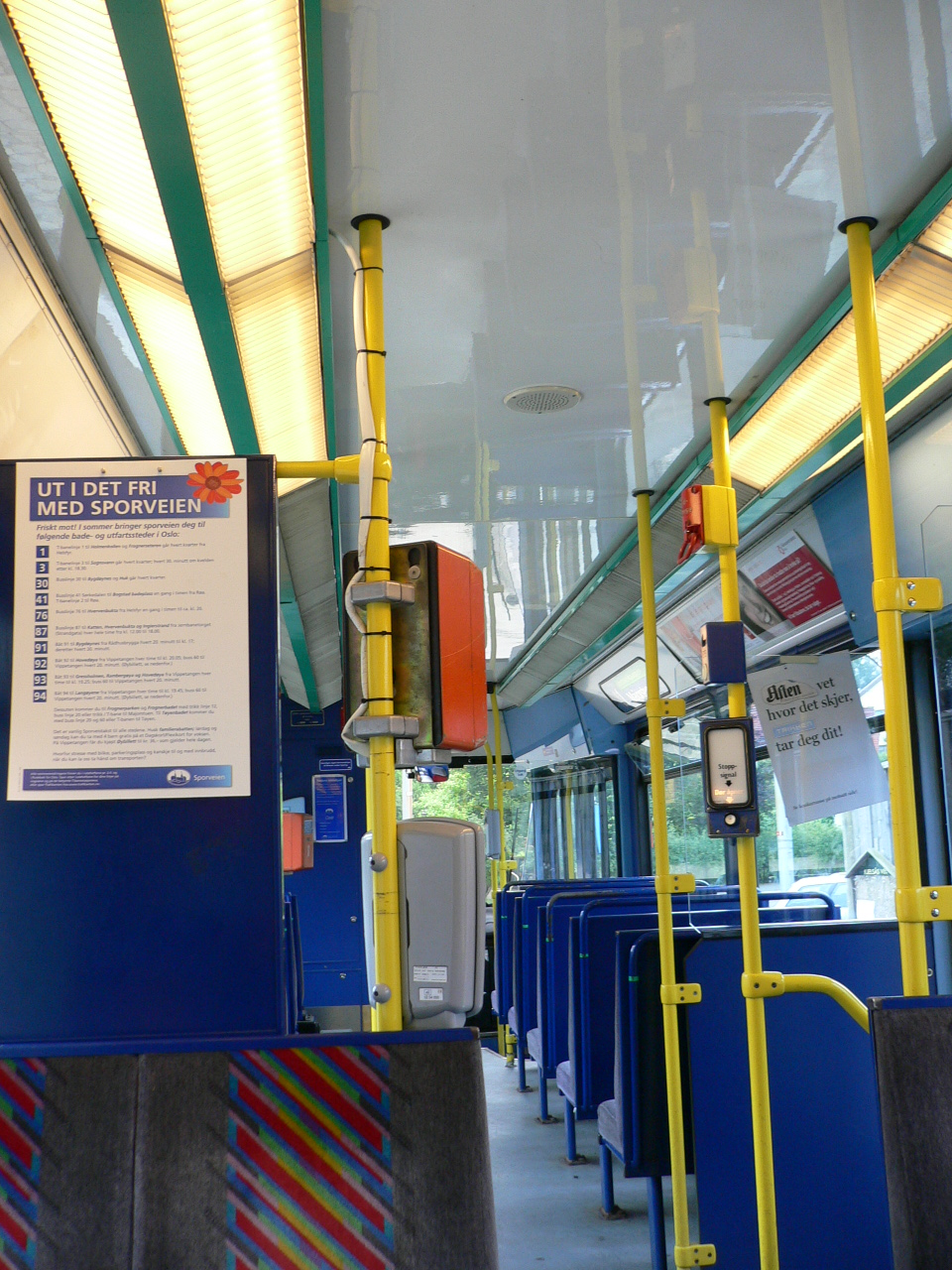 A tram in Oslo, Norway